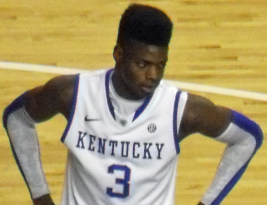 Nerlens Noel during a Kentucky Wildcats men's basketball game